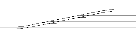 A track ladder diagram with turnouts on diverging track